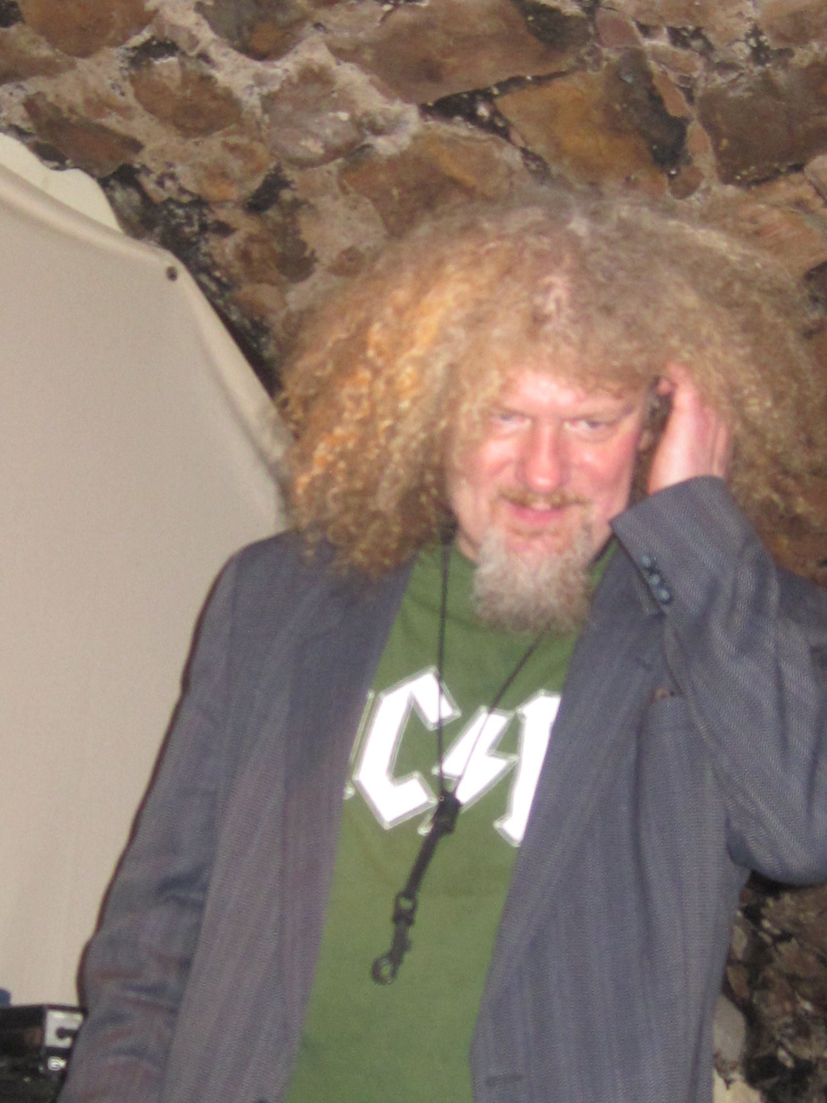 german saxophonist Lömsch Lehmann, Marburg 2014